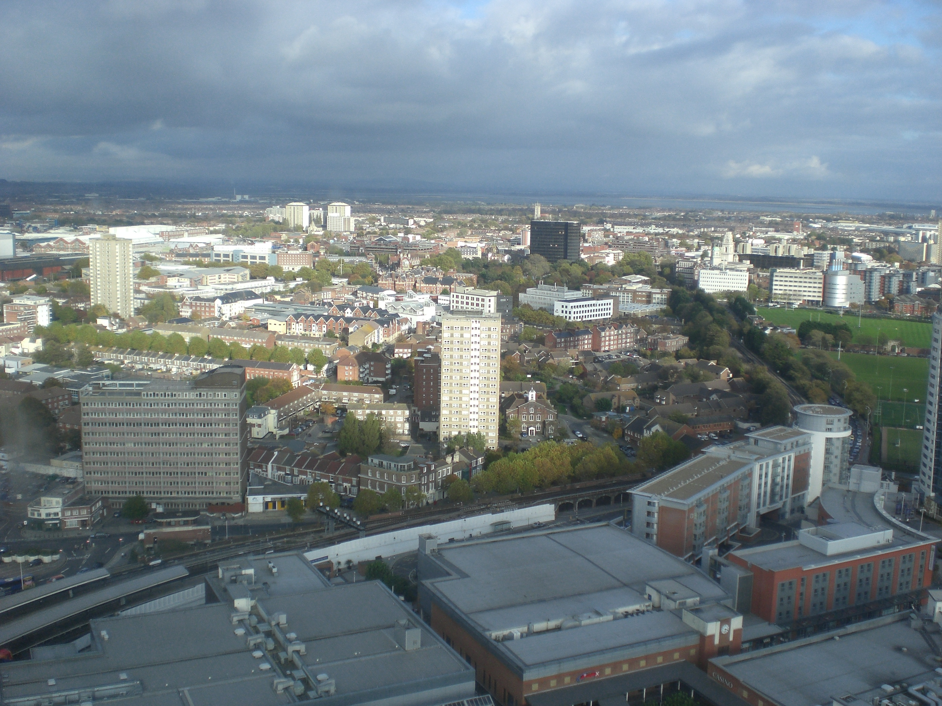 The view over the city of Portsmouth from the Spinnaker Tower in October 2009.